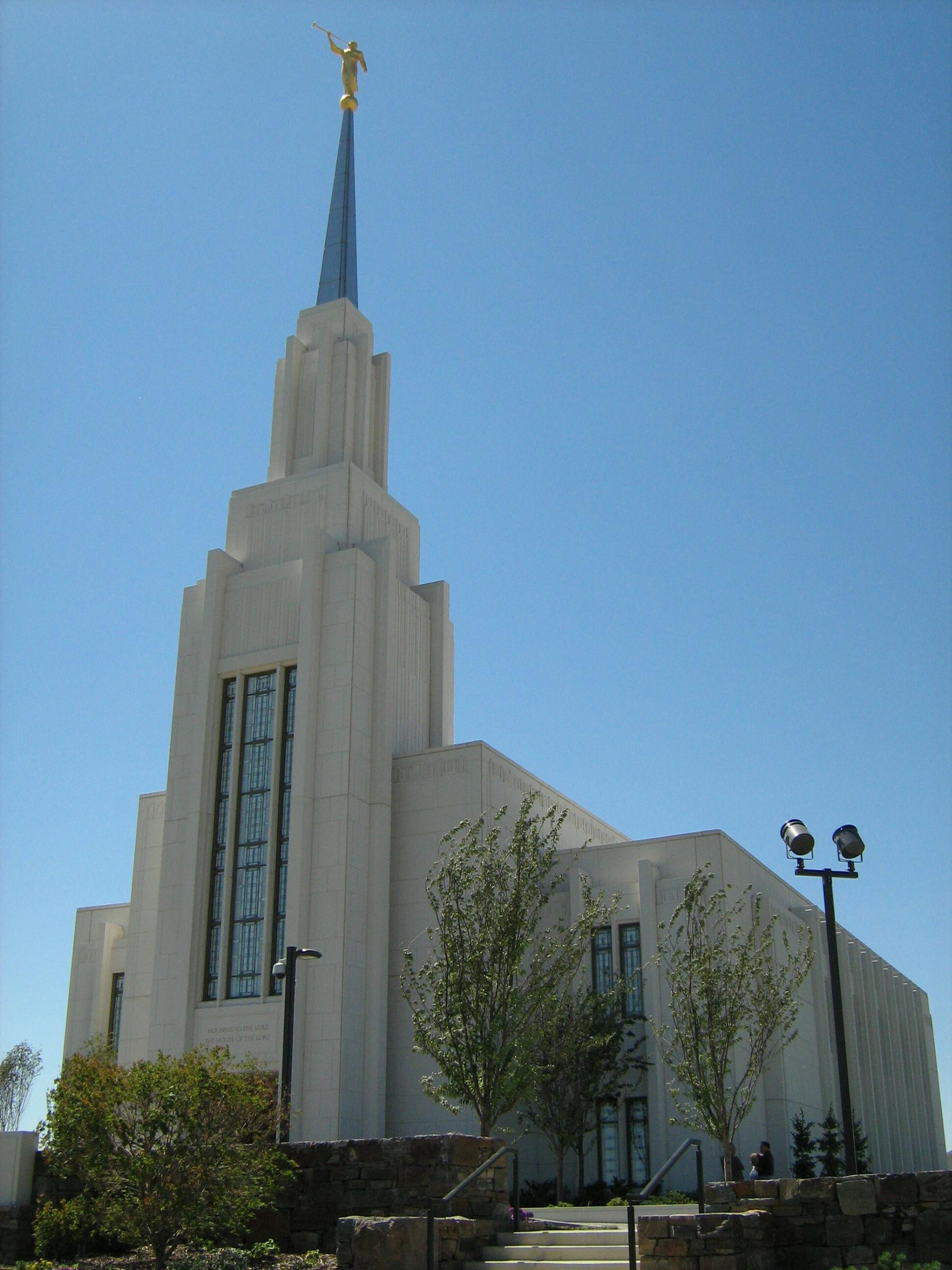 Photo during public Open House Event at the Twin Falls Temple of The Church of Jesus Christ of Latter-day Saints.